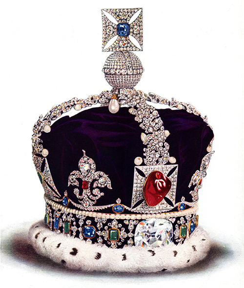 Imperial State Crown